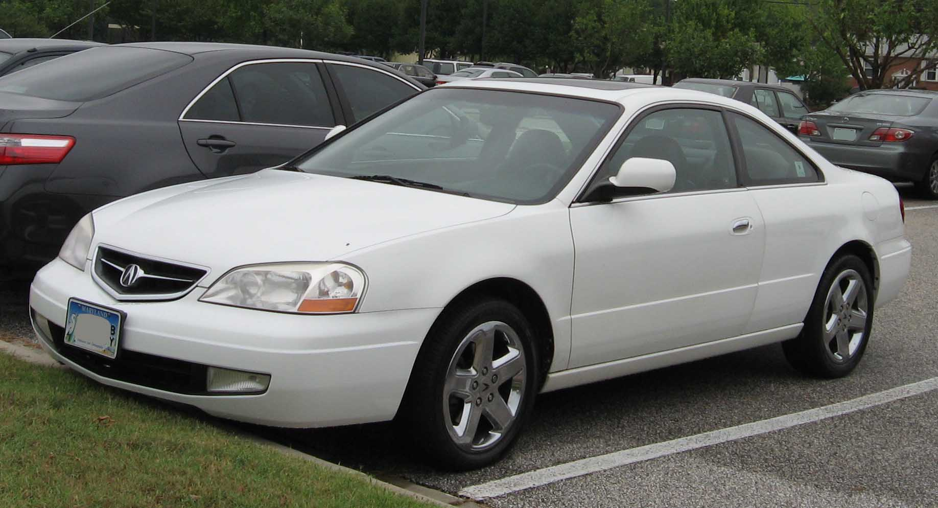 2001-2003 Acura CL photographed in USA.